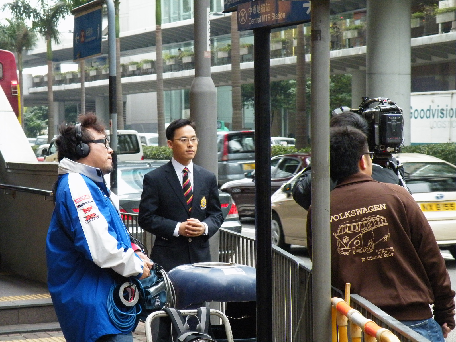 TV program Police magazine (警訊) shot on Central